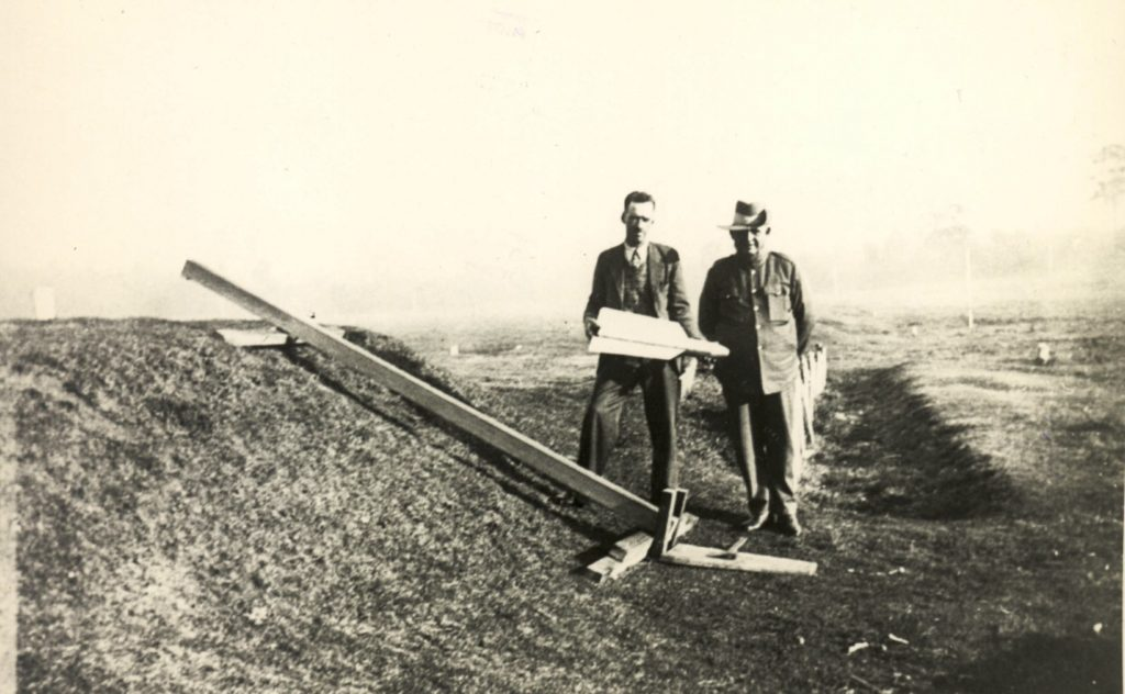 Sergeant Edward Creedy, on right, with a member of the Australian Rocket Society ready to launch the rocket at the Enoggera Rifle Range on 24 September 1936. Image No PM0725 Courtesy of the Queensland Police Museum. Image No PM0725 Courtesy of the Queensland Police Museum.